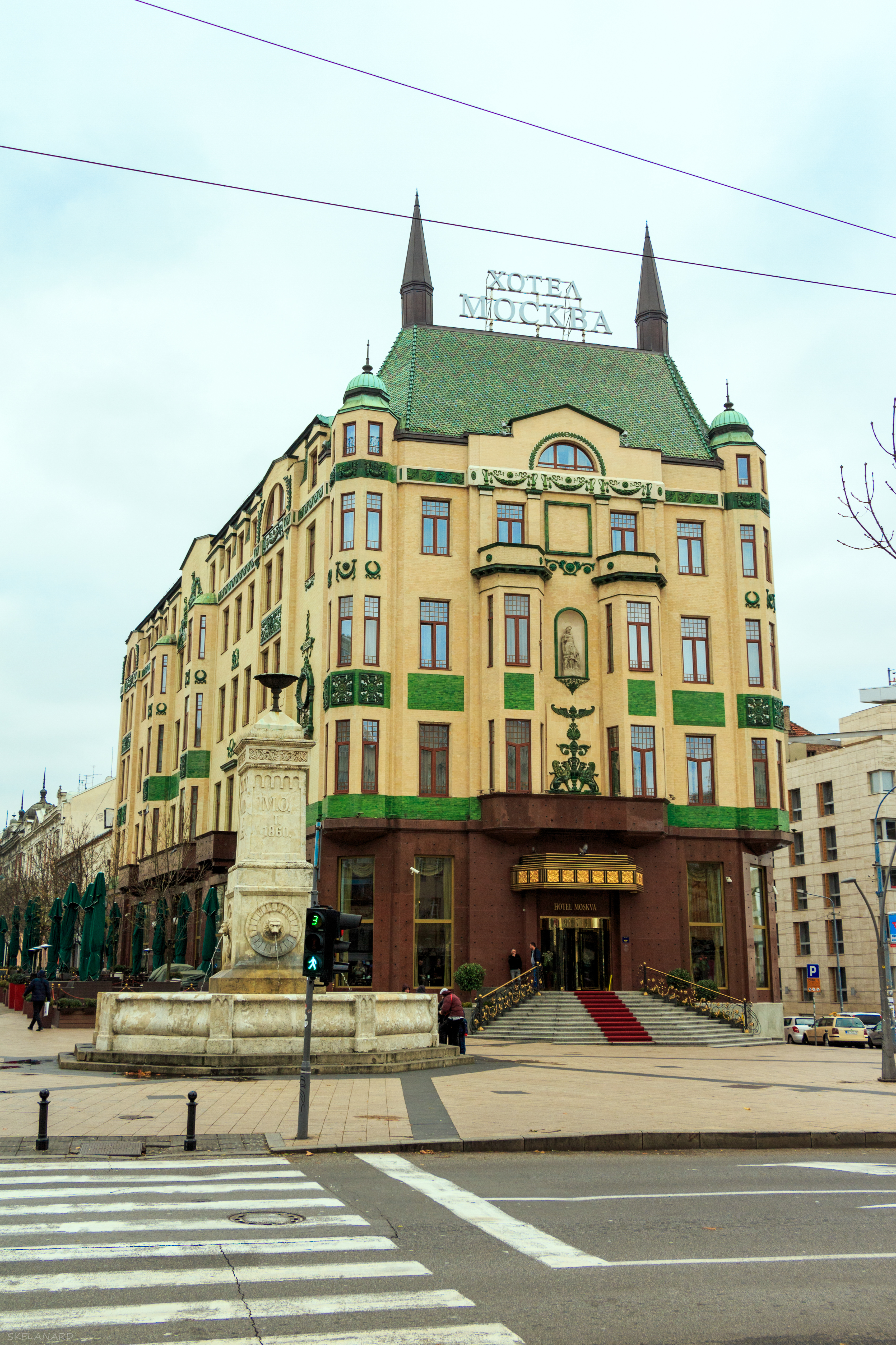 Hotel Moskva in Belgrade, Serbia